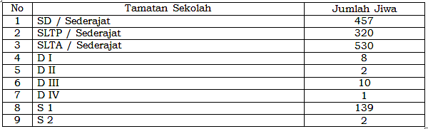 Penduduk Lewoloba berdasarkan Pendidikan